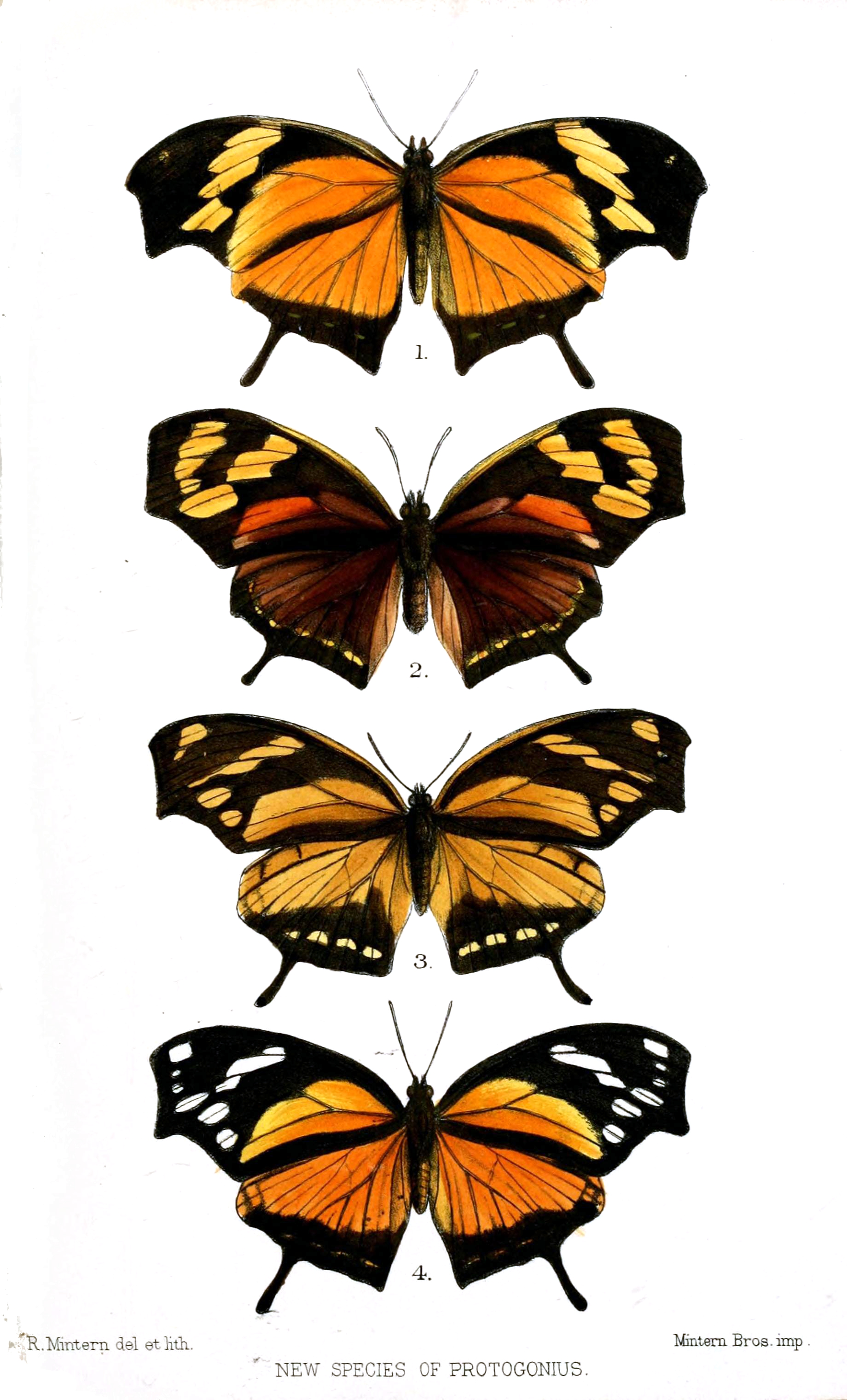 Tiger Leafwing subspecies